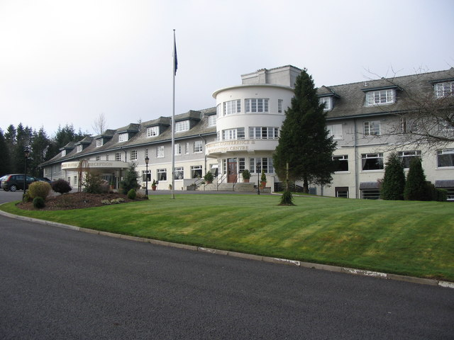 Drumossie Hotel This hotel is a short distance from Inverness on the old A9, the main route south. Now bypassed by the new A9